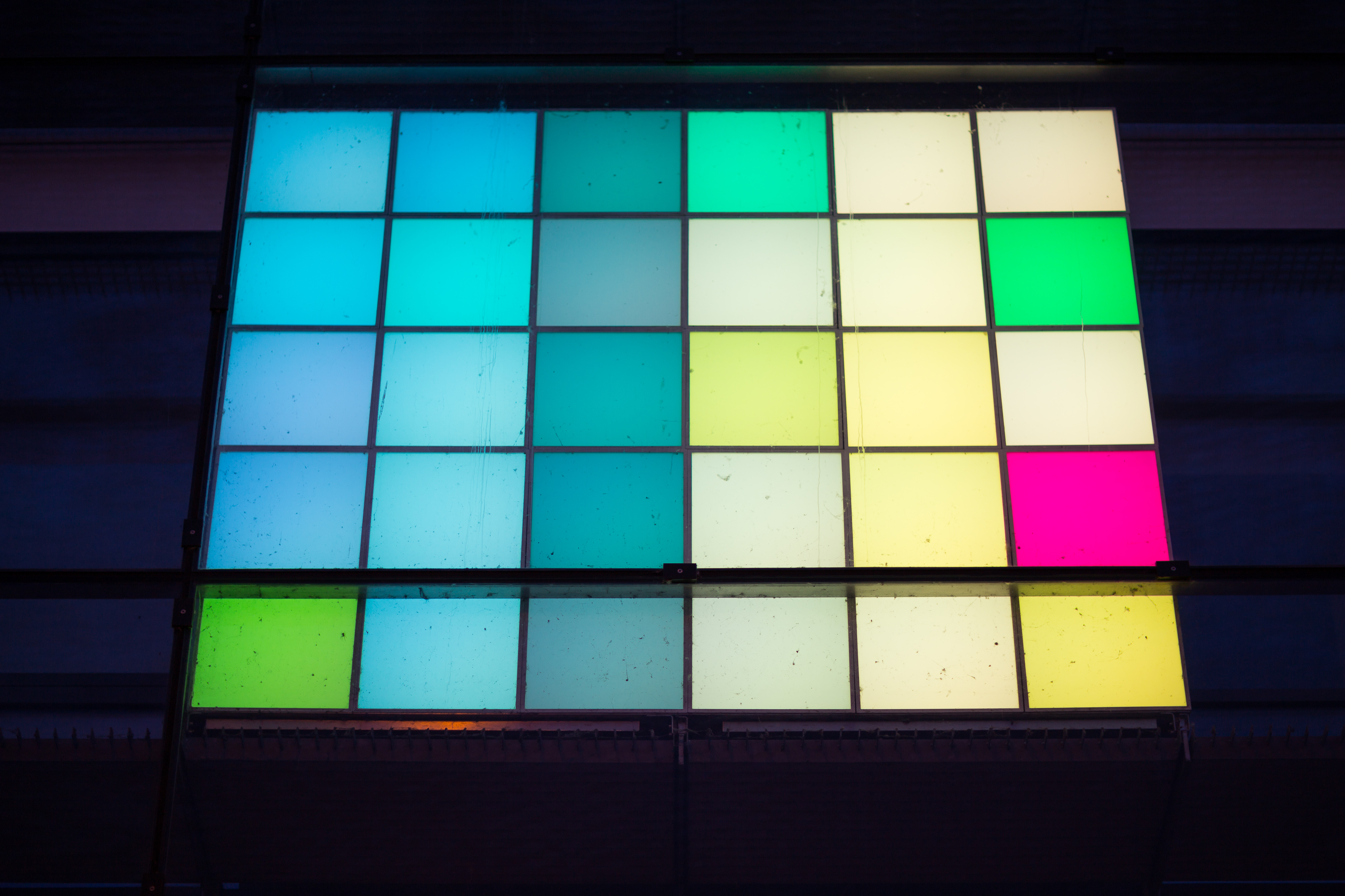 Artwork "Pacific Rim Around & Sideways Up" by Angela Bulloch installed at the facade of the Nord/LB office building located at Friedrichswall in Hanover, Germany.